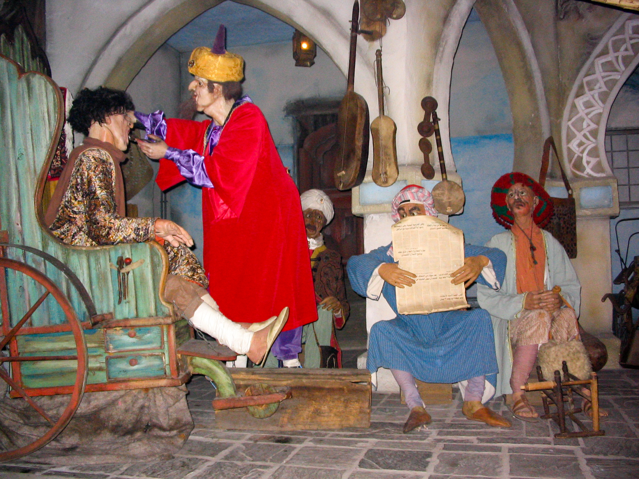 Scene from Darkride "Fata Morgana" in Efteling, Netherlands